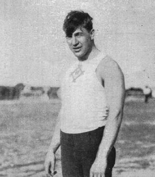 Weigthlifter Oscar Osthoff at the 1904 Summer Olympics